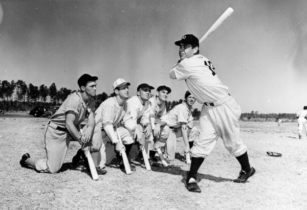 N.Y. Yankee Charles Ernest "Charlie" Keller demonstrating home run swing to students : Bartow, Florida.